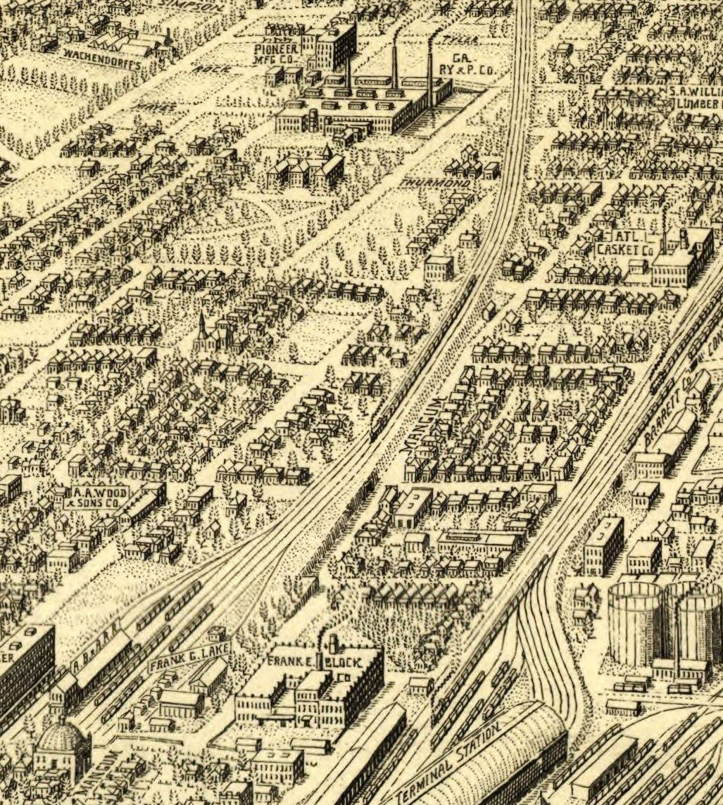 Mangum Street embankment of the AB&A railroad west of Downtown Atlanta. Factory with smokestacks at top is at NW corner Northside Drive (then Davis) and Thurmond - "Blue" parking lot as of 2012.